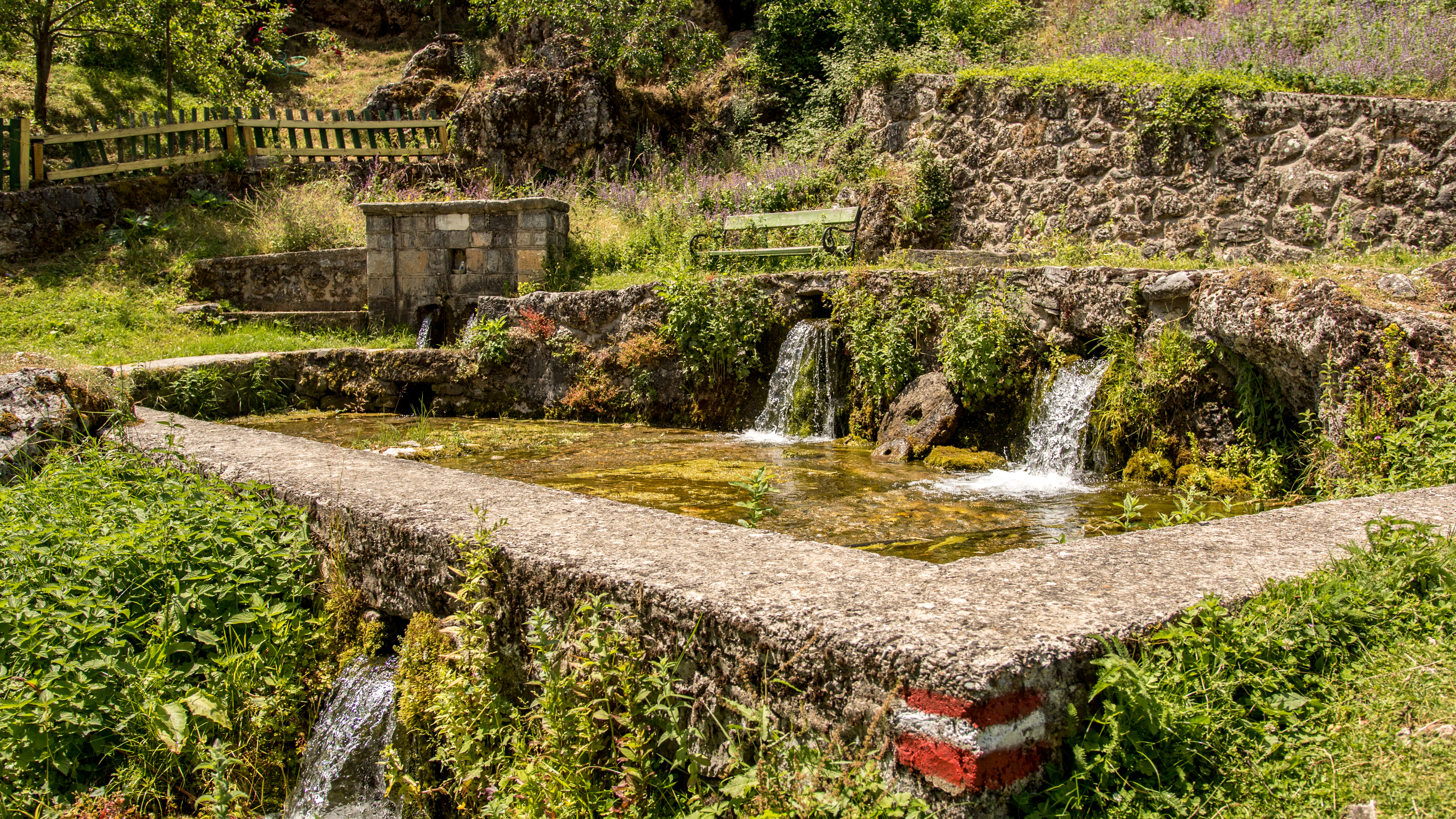 Spring of the Selce River in the village Selce